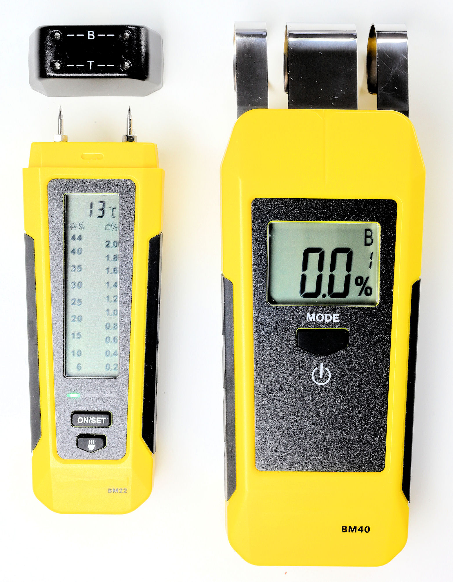 Two commercially available tools for measuring moisture in walls, using resistance (left) and capacity (right)